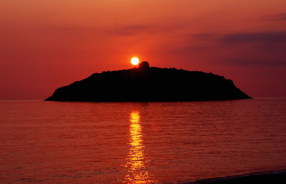 sunset on the sea, Diamante (CS), Italy